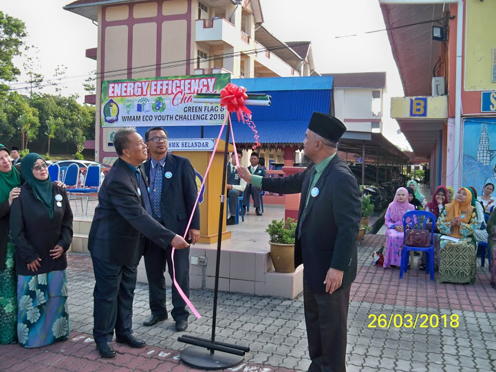 Cekap tenaga 1